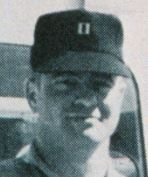 Lieutenant Francis D. Moran, later a rear admiral and Director, National Oceanic and Atmospheric Administration Commissioned Officer Corps (1986-1990)